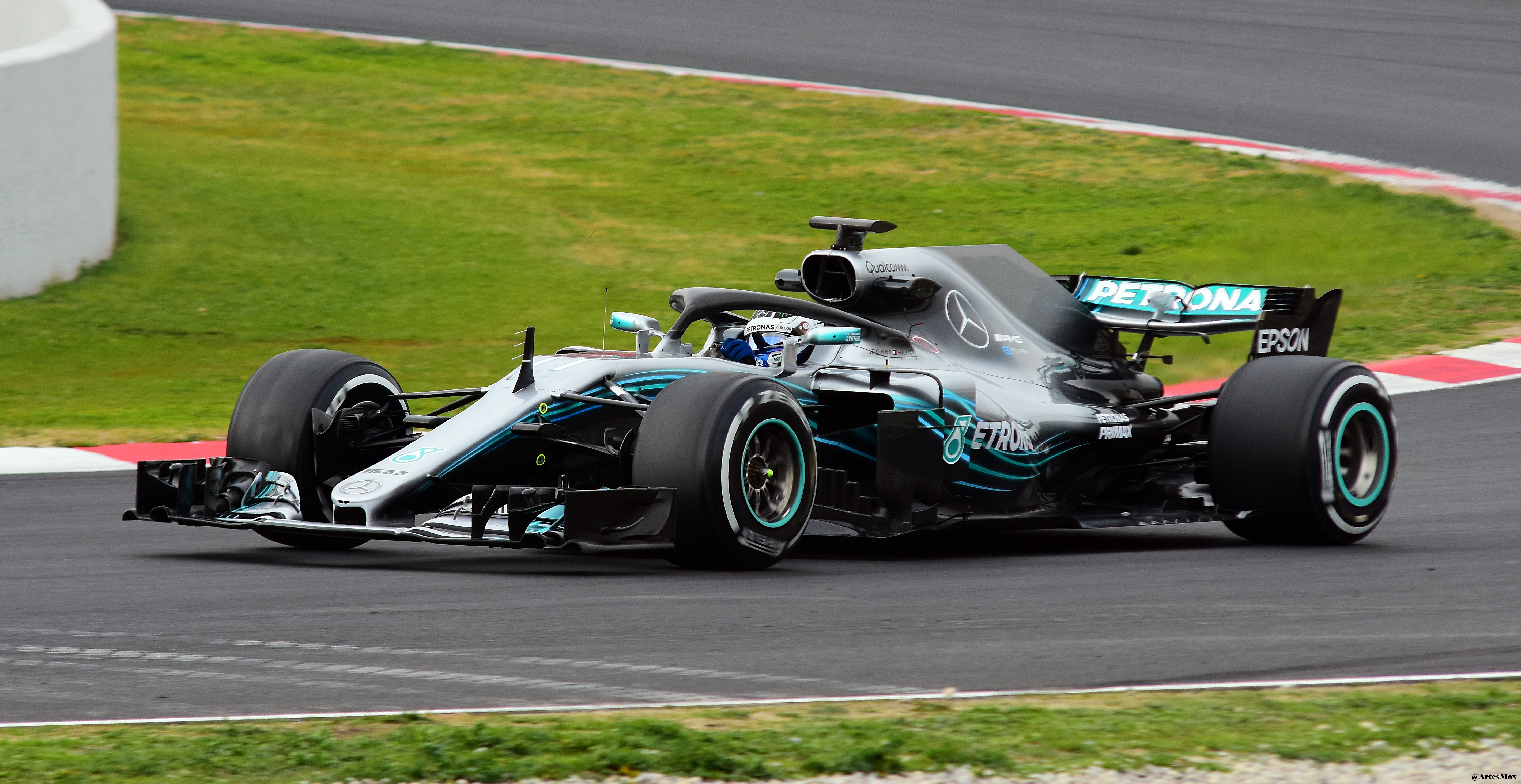 Valtteri driving the Mercedes AMG F1 W09 EQ Power+ during pre-season testing in Barcelona